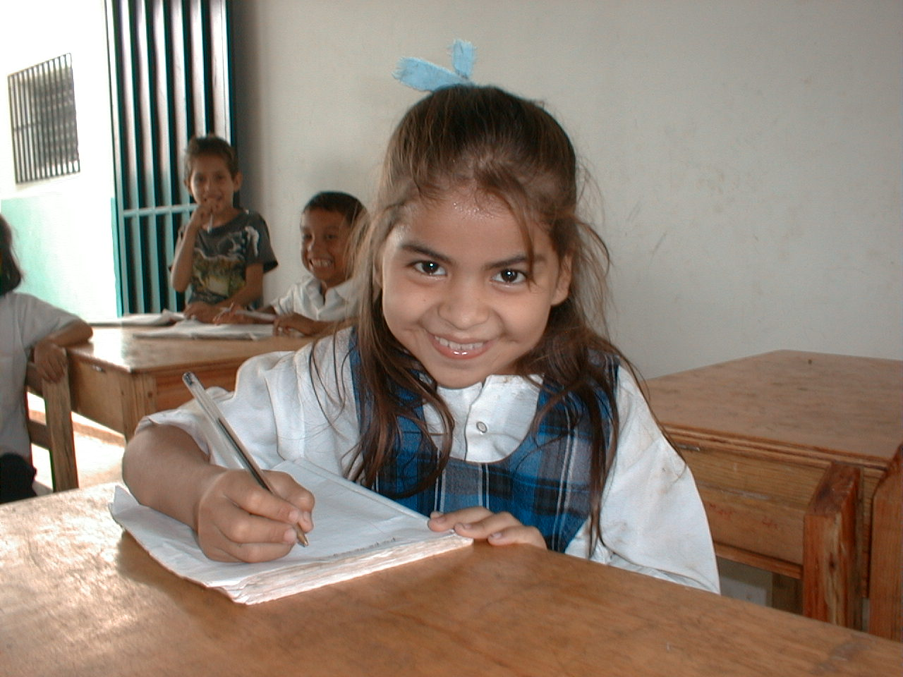 Smiling female student in new class room provided by the ' Village' project. Camera Info: OLYMPUS SR83 Digital F-stop 2.8 Exposure 1/30 Create date: 1999:09:02 16:11:12 Contact creator at - Page also was a link called "San Ramon, Choluteca Honduras: 1999 first ' Village'" to access the full WEB collection.